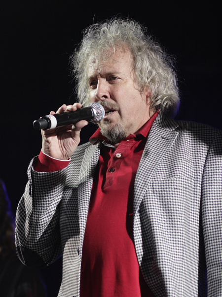 Andrey Makarevich at a Maxim Leonidov's concert in the Milk Moscow Club on December 10, 2009.